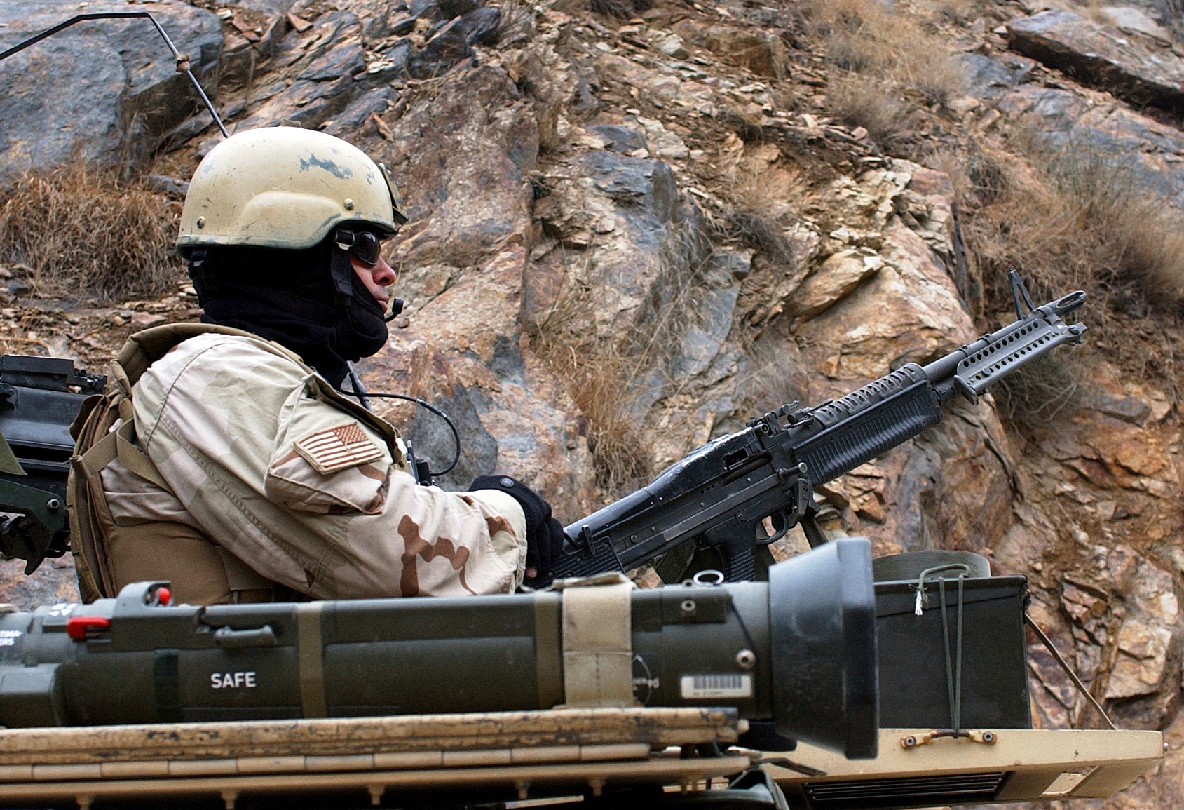 A soldier from the 19th Special Forces Group (airborne) mans a M-60 machine gun in the turret of a High Mobility Multipurpose Wheeled Vehicle, while someone changes a truck tire on the way to Asadabad, Afghanistan.